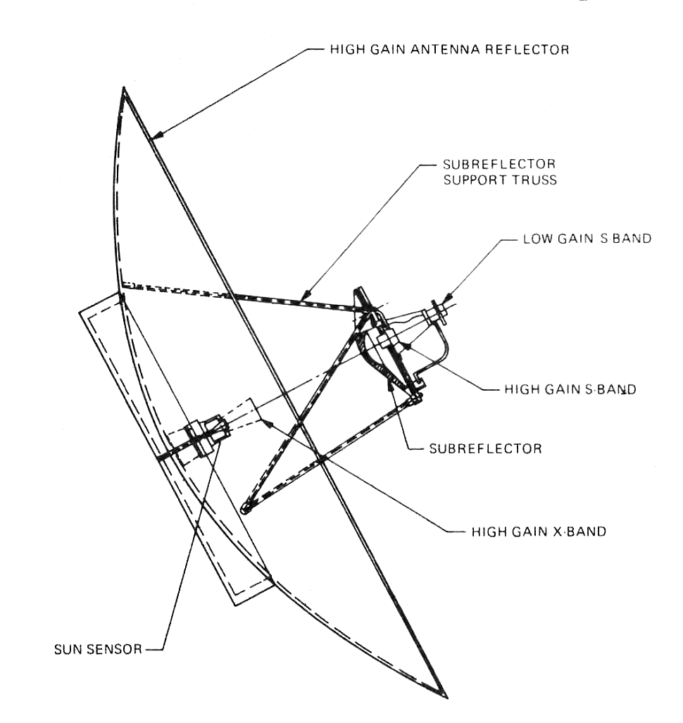 Diagram of the high-gain antenna located on the Voyager 1 and Voyager 2 spacecrafts.